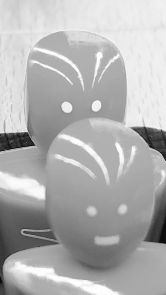 This is a black and white image showing two of the automoblox people created by the company automoblox.